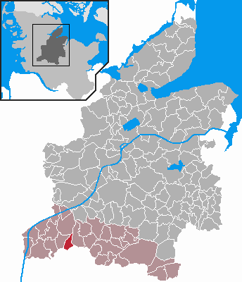 Locator maps of municipalities in Schleswig-Holstein - District Rendsburg-Eckernförde